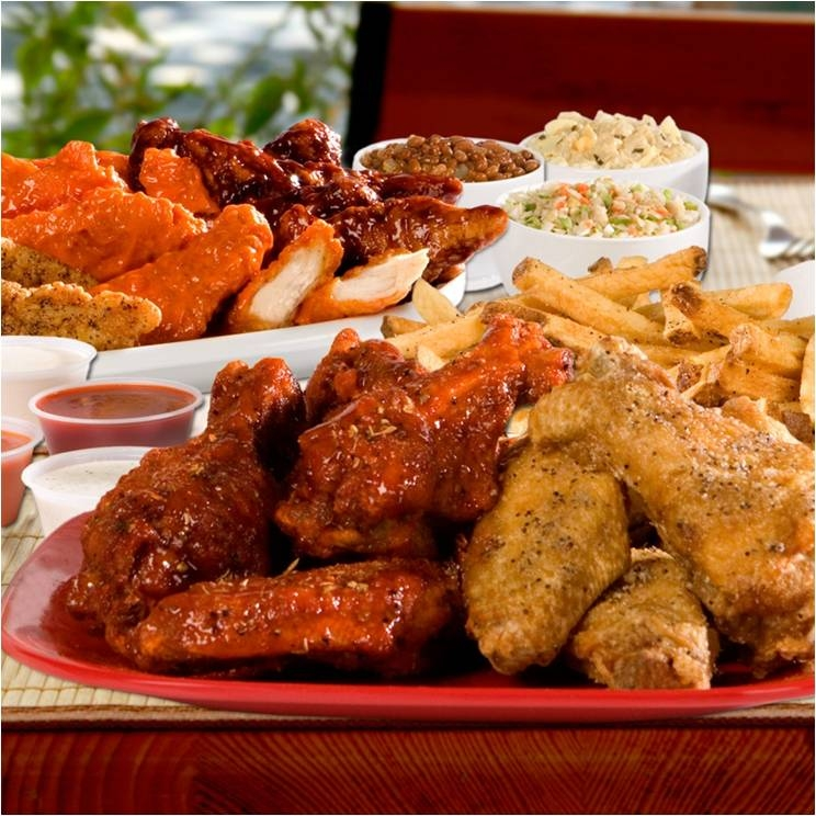 Wingstop Boneless Wings